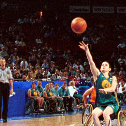 Wheelchair basketball Melissa Dunn free throw - 3b - 2000 Sydney match photo Melissa Dunn